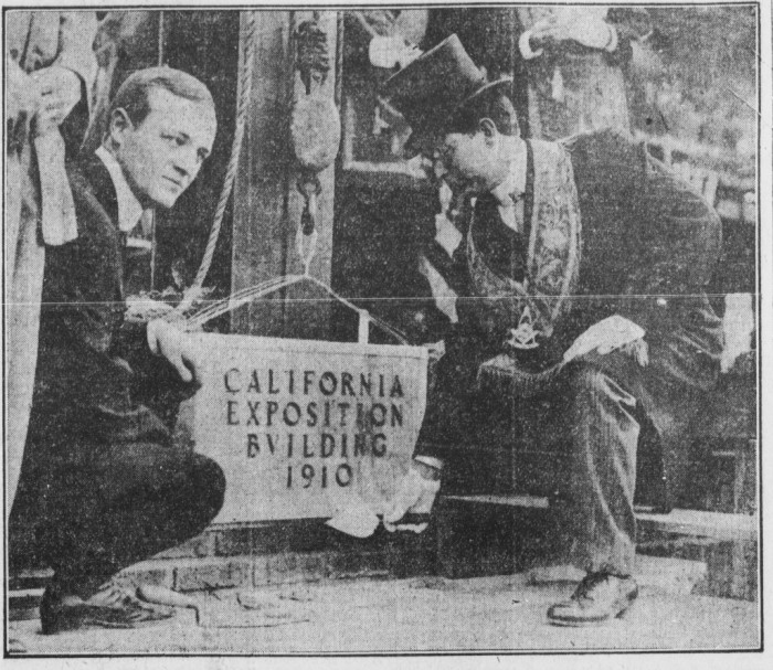 Dana R. Weller, grand master of the Masonic fraternity, and Paul Engstrom, in charge of construction, laying cornerstone of Exposition Park building, 1910, as seen in the Los Angeles Herald of December 18, 1910